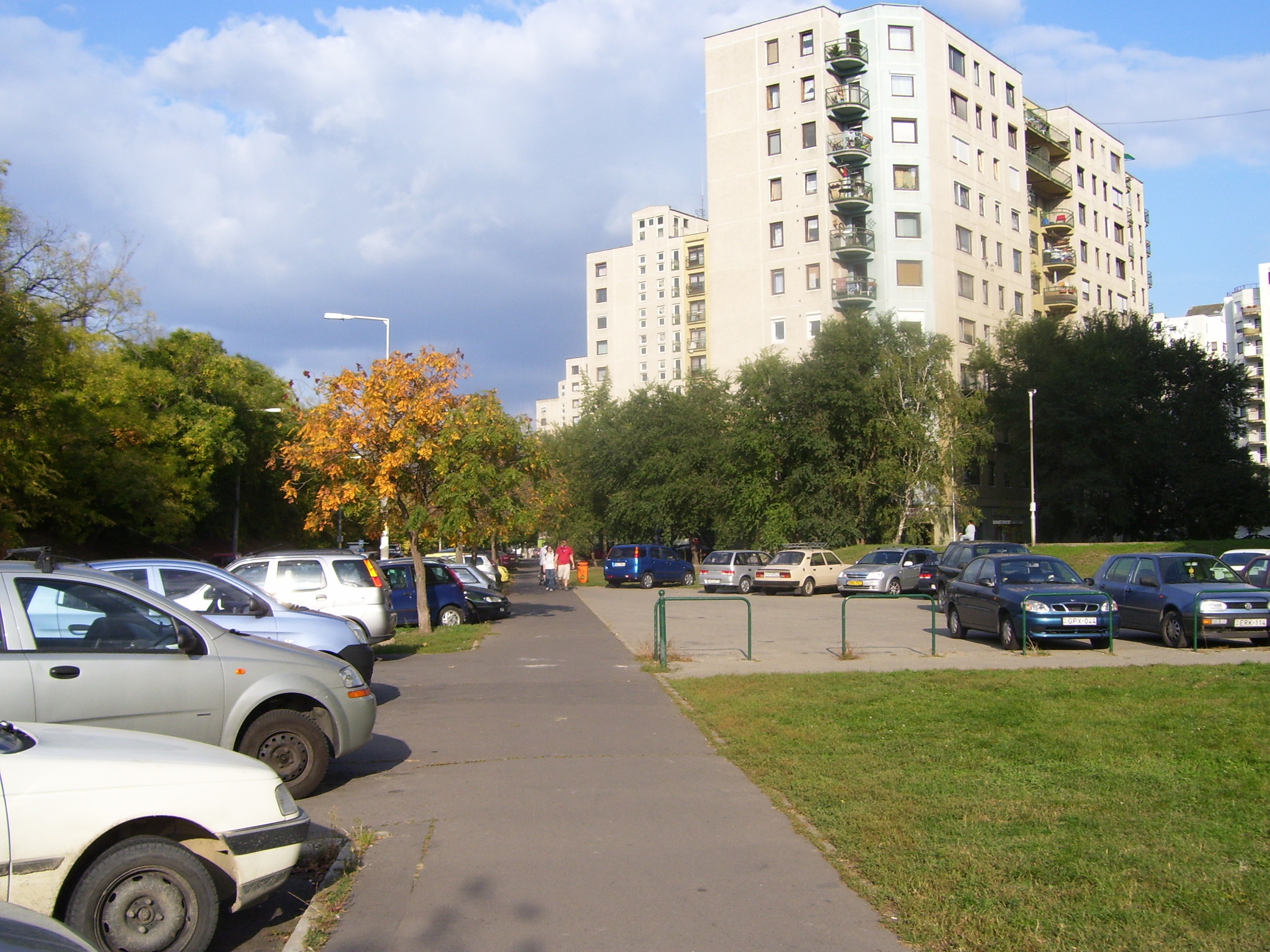 Káposztásmegyer, Budapest, Hungary